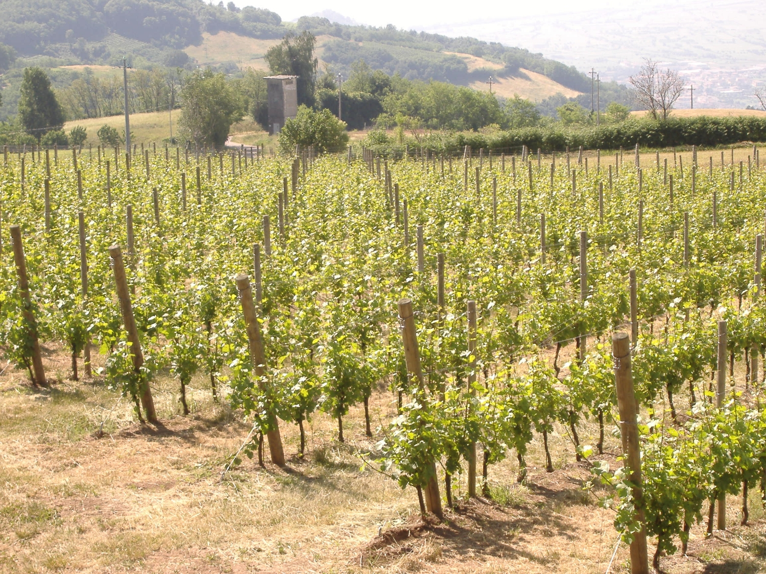 Vineyard in the Italian wine region of the Veneto